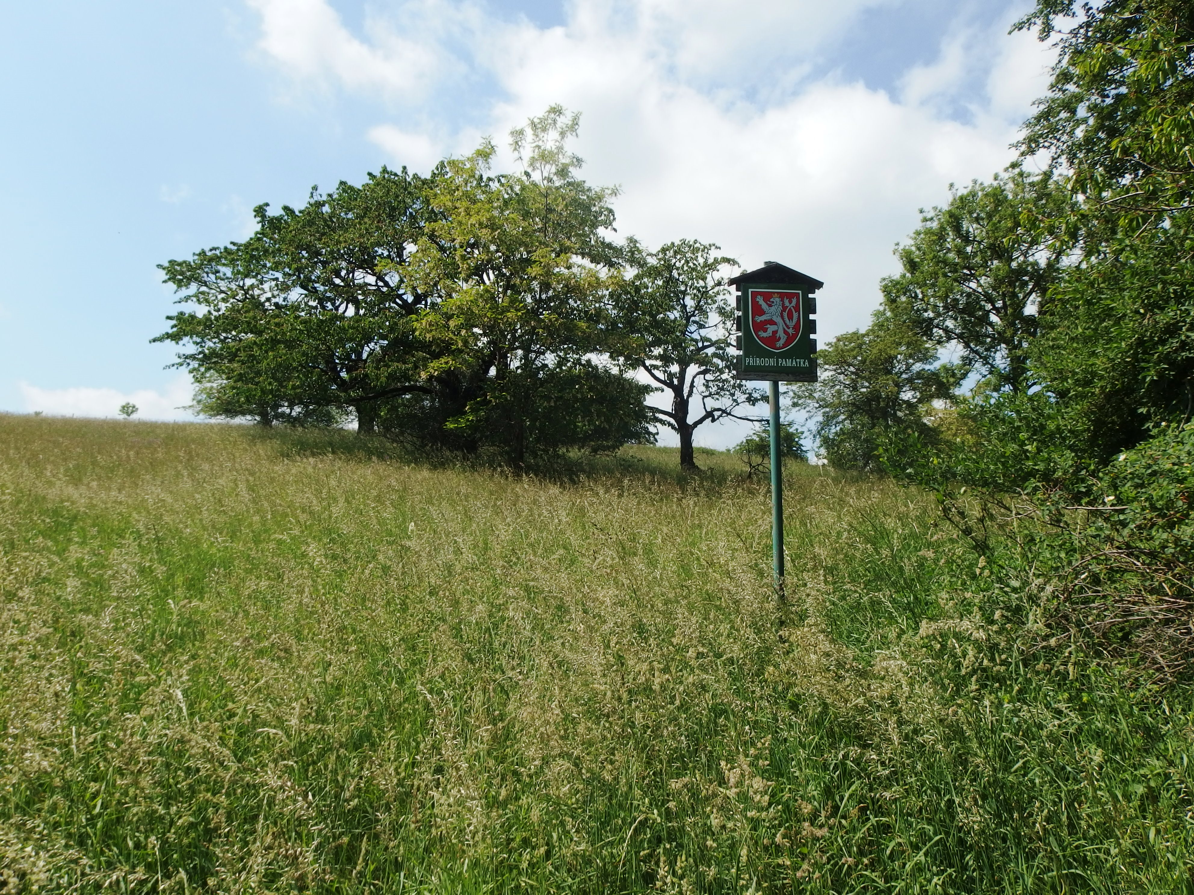 Střílky, Kroměříž District, Czech Republic. Natural monument Bralová.